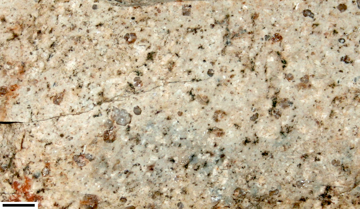 Rhyolite porphyry. Scale bar in lower left is 1 cm. Collected near Mt. Elbert, Colorado, in 2003.